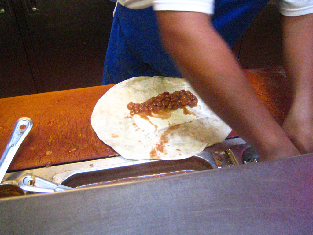 Assembly in progress.